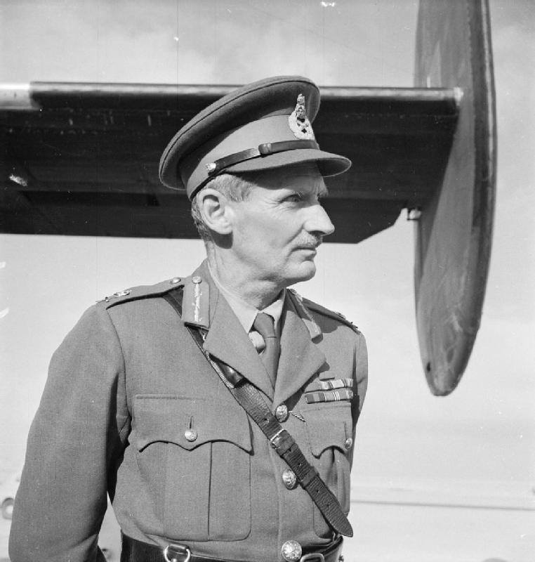 Field Marshal the Viscount Montgomery of Alamein Kg Gcb Dso 1887-1976 The Second World War 1939 -1945: Montgomery's chance to command a modern battle army came in 1942 when he was sent to Eygpt to replace Auchinleck as commander of the Eighth Army. He was photographed shortly after his arrival by air in Cairo.